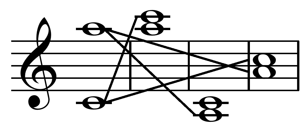 Compound interval inversion: Major 13th (compound Major 6th) inverts to a minor 3rd by moving the bottom note up two octaves, the top note down two octaves, or both notes one octave.